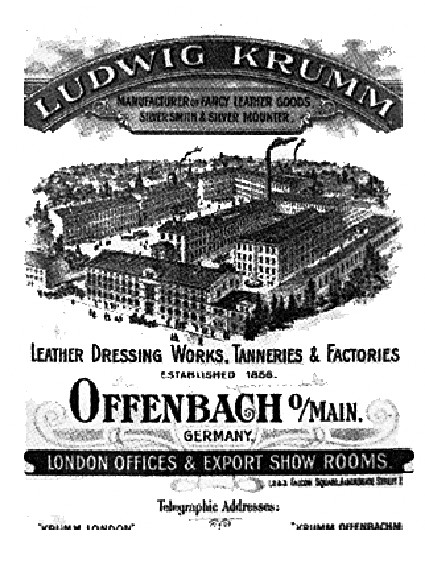 Advertising of Ludwig Krumm Leather (Goldpfeil)